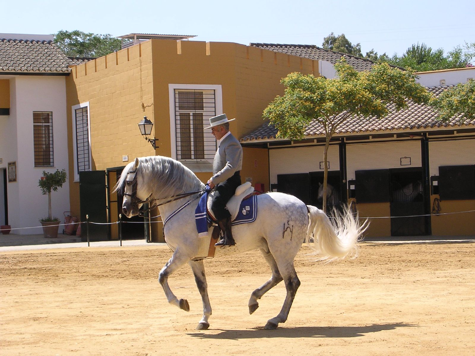 Try a Fresco Spain-taneos Custom Tour. We'll put our years of experience living and traveling all over Spain to work for you and tailor a private custom trip that caters to your groups' every wish and desire! According to all horses in the set are carthusian horses